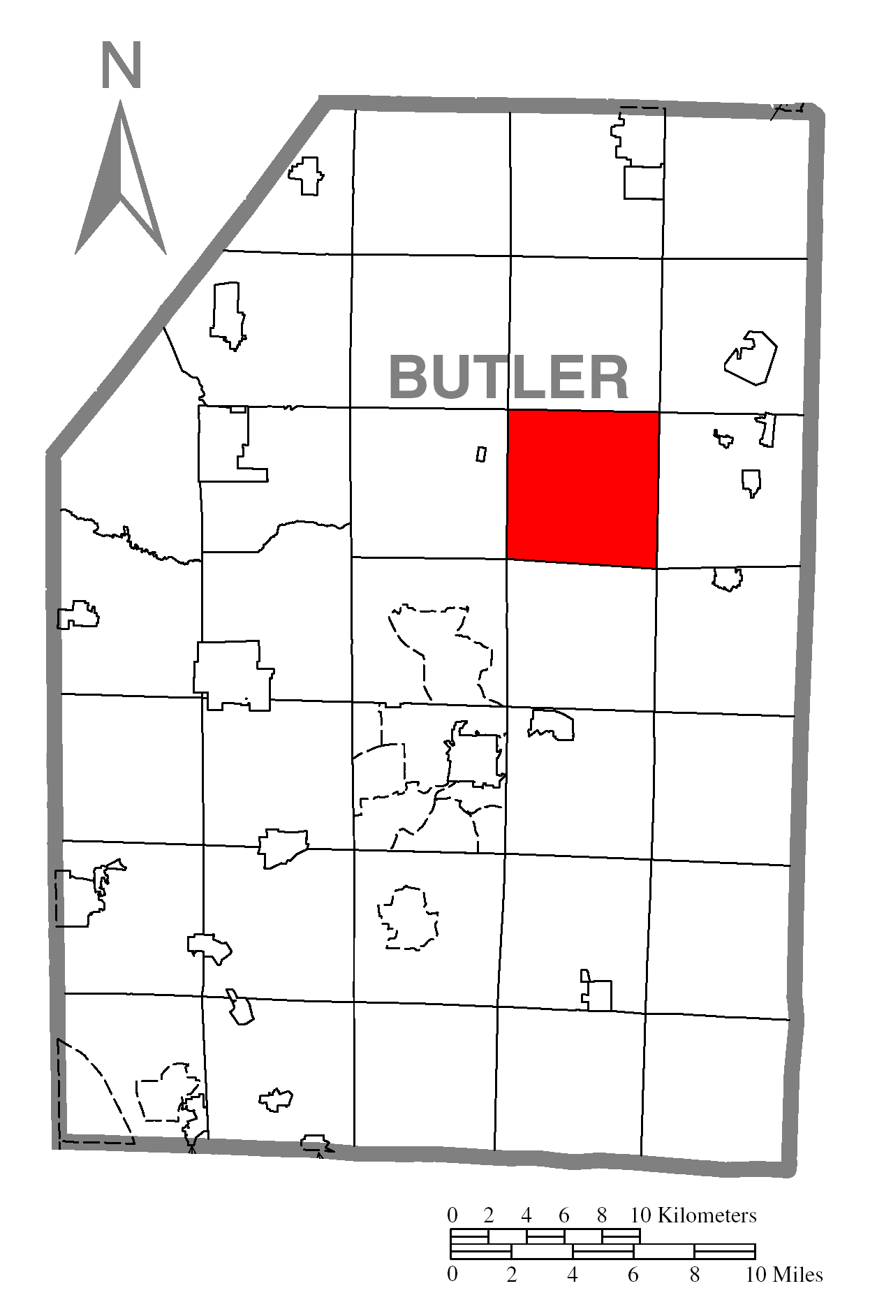 A map of Butler County showing Concord Township, Pennsylvania (alternate) highlighted on the map.